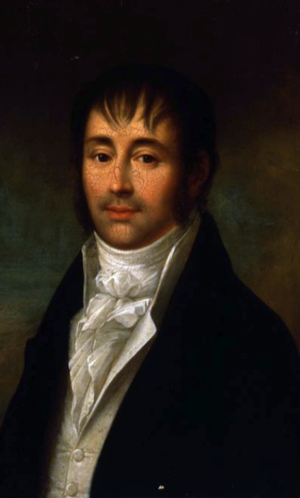 Euzebiusz Słowacki